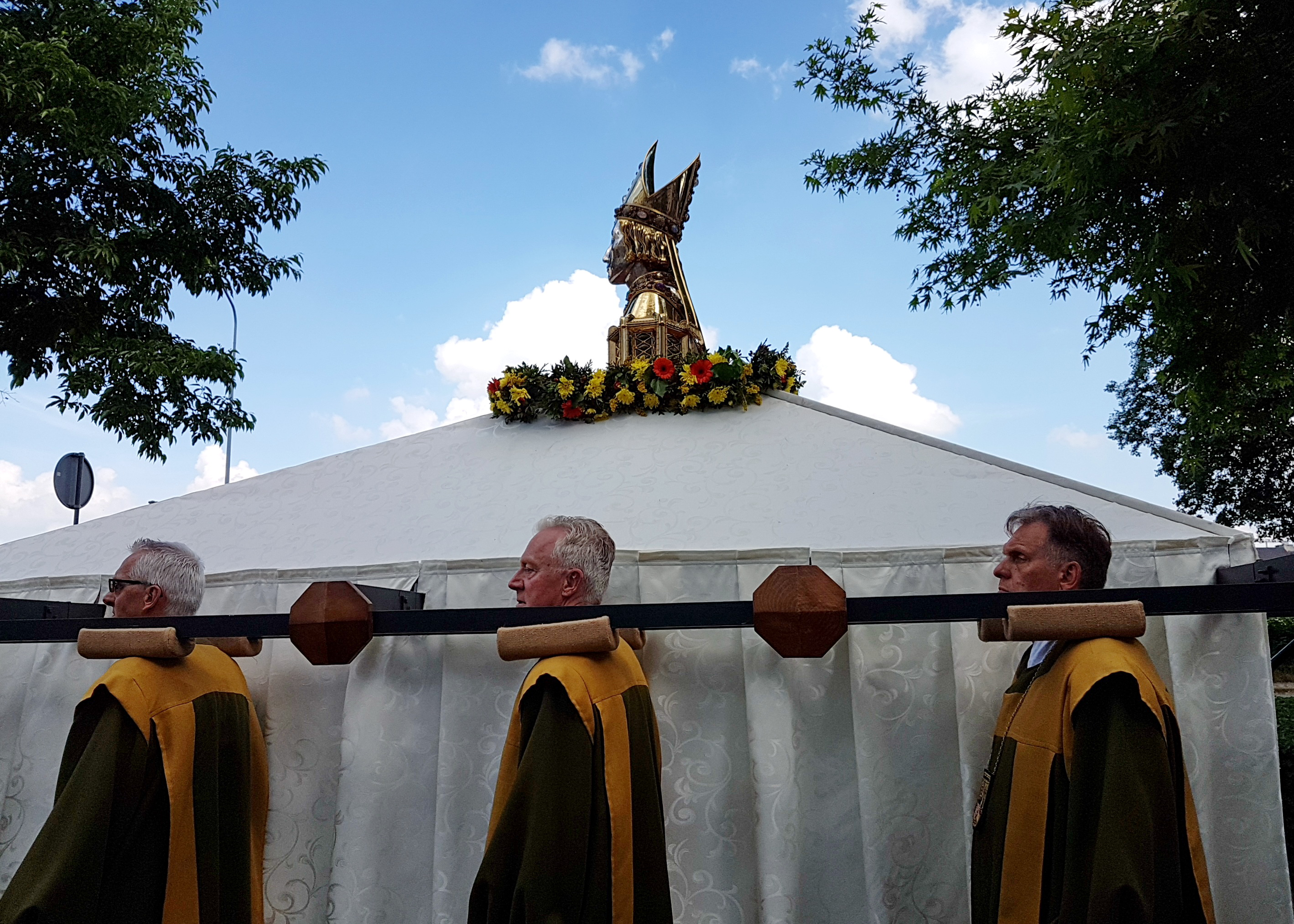 Participants in a historic religious procession during the 2018 Heiligdomsvaart (Relics Pilgrimage) in Maastricht, Netherlands. The history of this seven-yearly catholic pilgrimage goes back to the Middle Ages. The first 'modern' version took place in 1874. On both Sundays of the 10-day festival, a procession is held in which the main relics and other devotional objects are exhibited. This photo was taken at Het Bat during the (second) procession on Sunday 3 June 2018. This particular group, the Dragersgilde Sint-Lambertus (Porters Guild of Saint Lambert, founded in 1981), has the task of carrying and escorting the relatively modern (1940) reliquary bust of Saint Lambertus in processions.